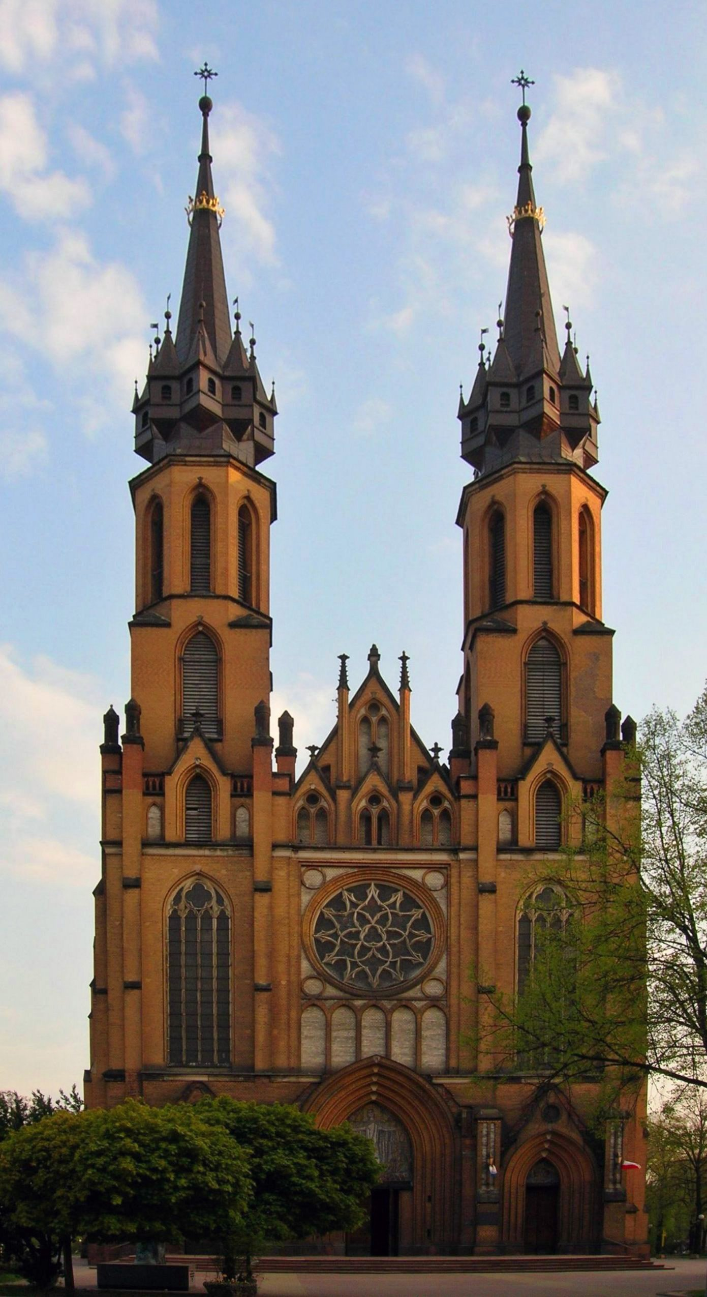 Radom - Cathedral of Virgin Mary.